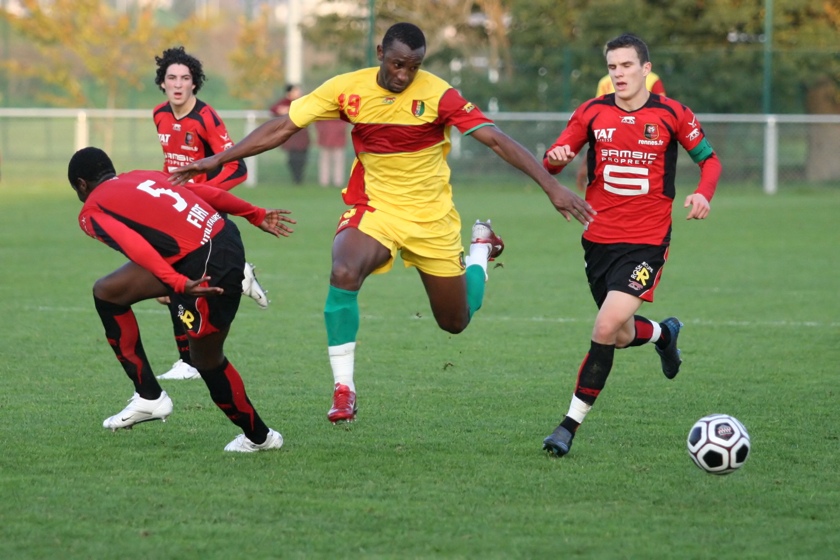 Kamil Zayatte, Guinean football player, during Guinean national team friendly match against the Stade Rennais youth team.